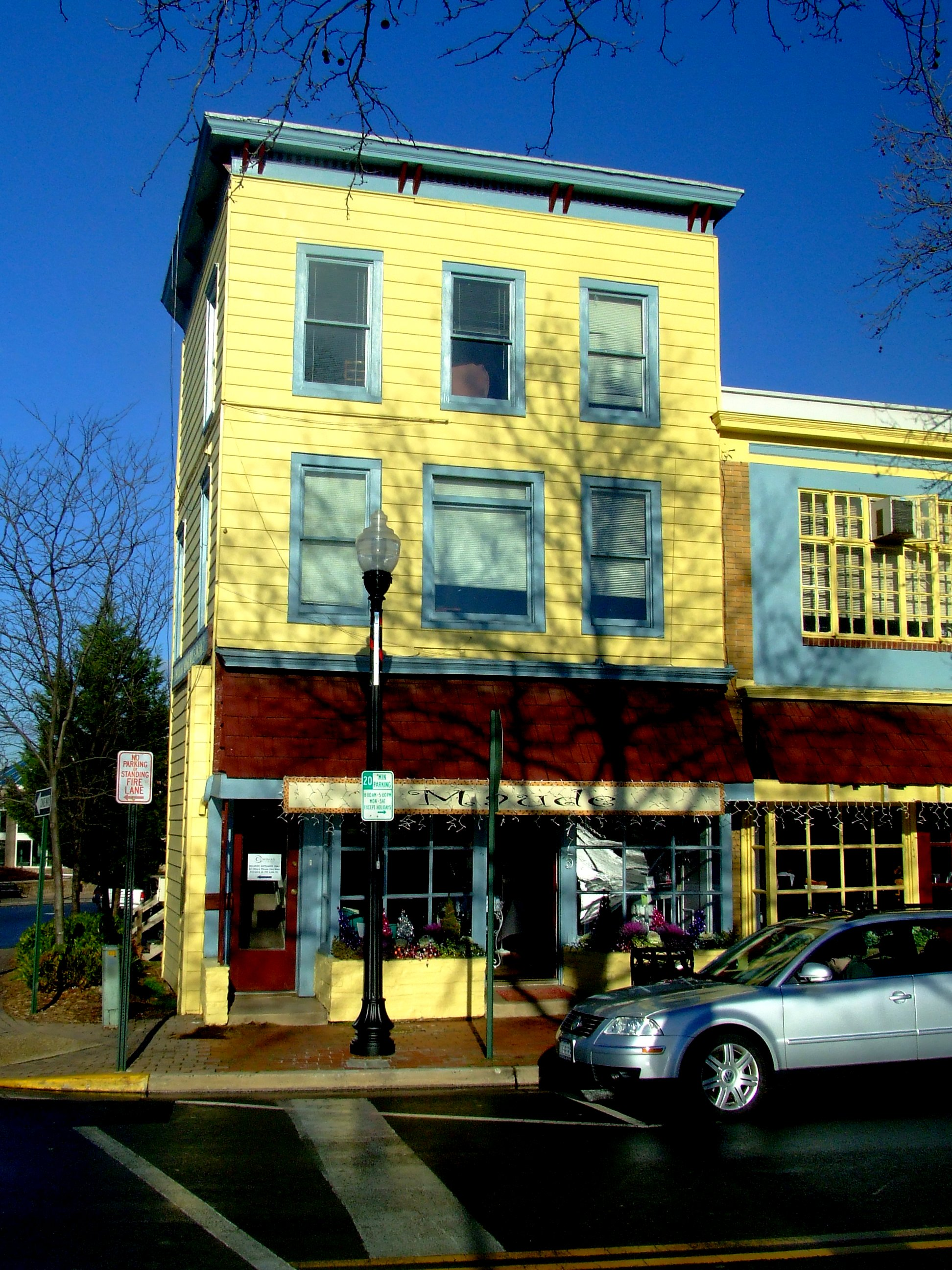 An example of mixed use development in oldtown Herndon. Copyright 2007 Joshua Davis[1], some rights reserved.